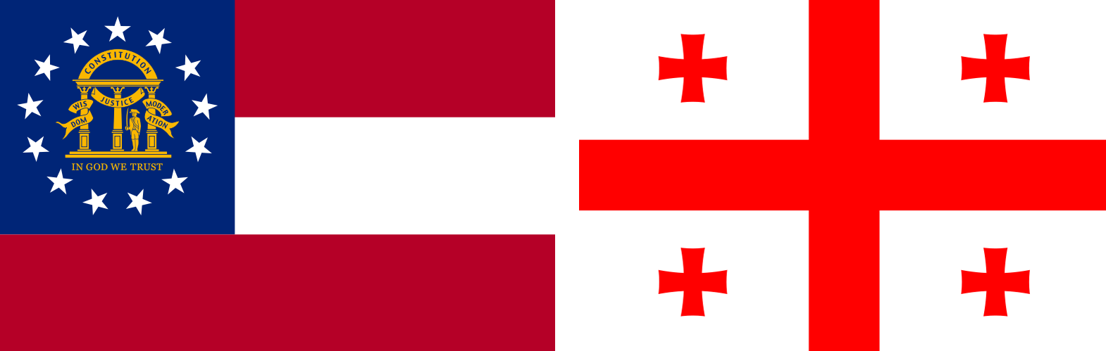 Georgia-Georgia flags